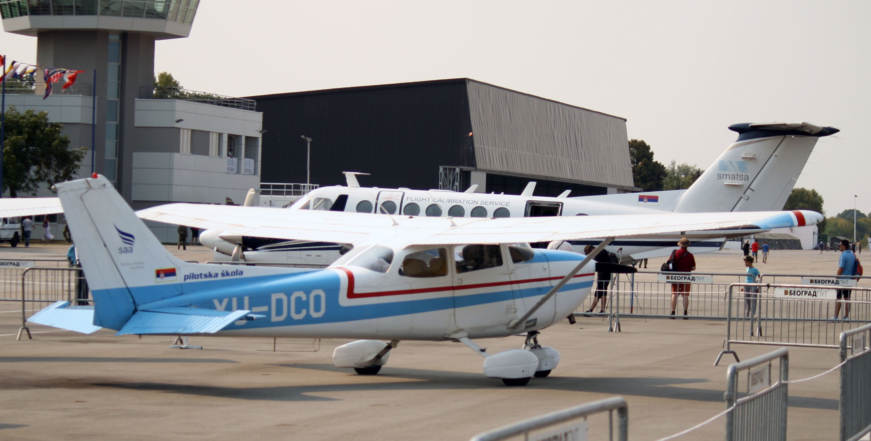 Cessna 172 of Serbia and Montenegro Air Traffic Services Agency Aviation Academy from Vršac on display at Batajnica Air Show 2012 held to celebrate 100 years of Serbian Air Force.